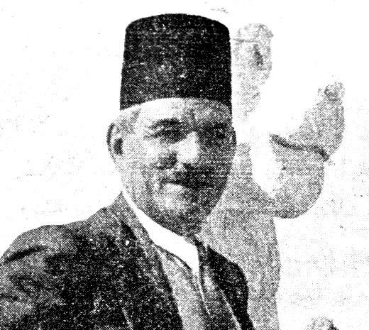 Dr. Selim Hassan (1887-1961)